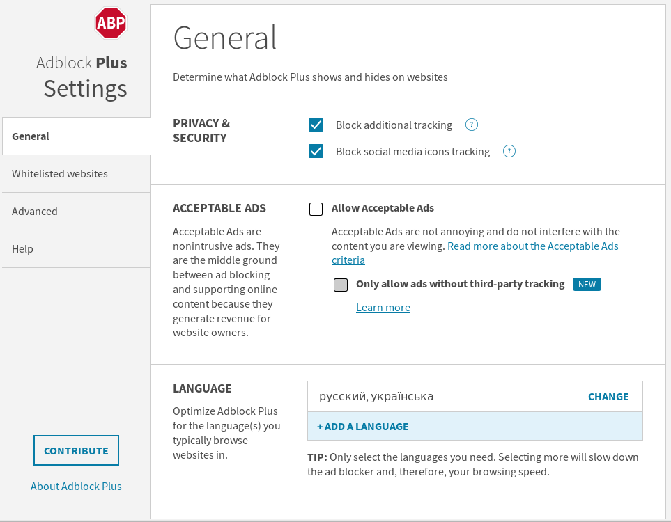 Settings page for Adblock Plus 3.0.2 (Firefox)